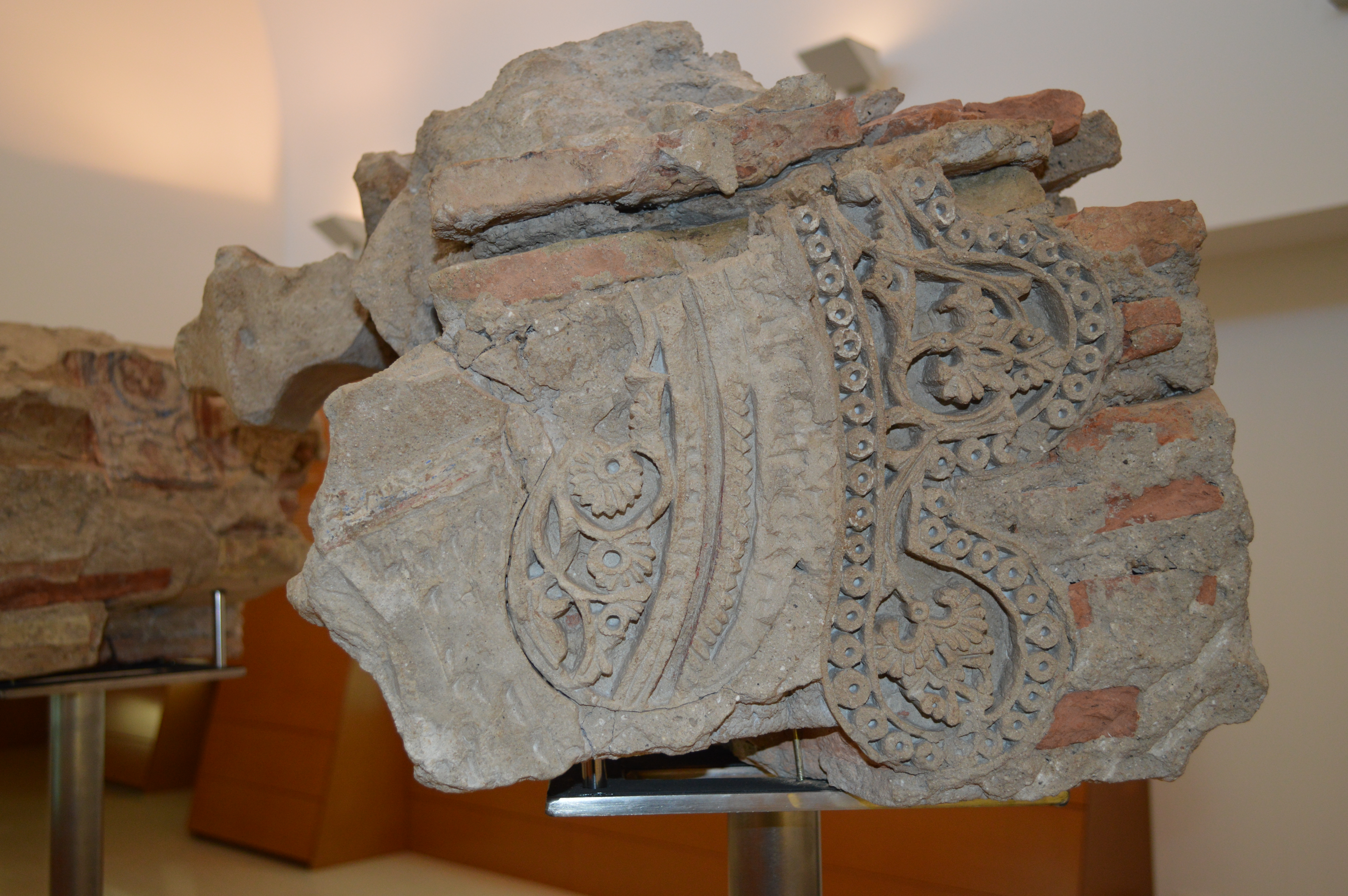 Guixeria